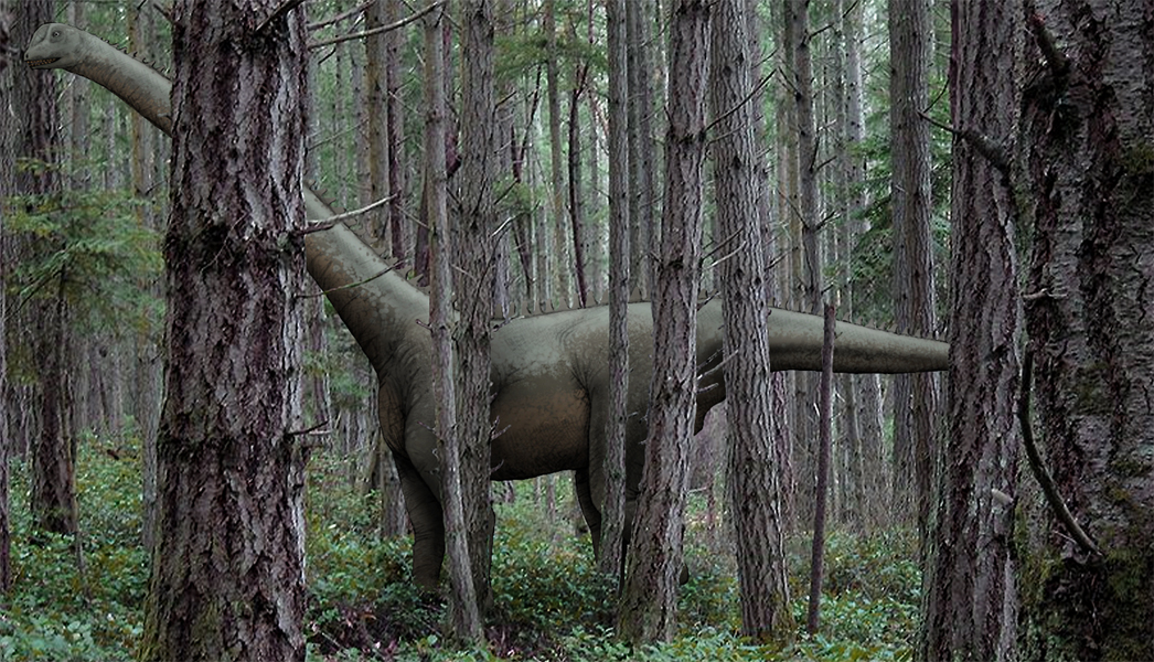 klamelisaurus restoration in scene